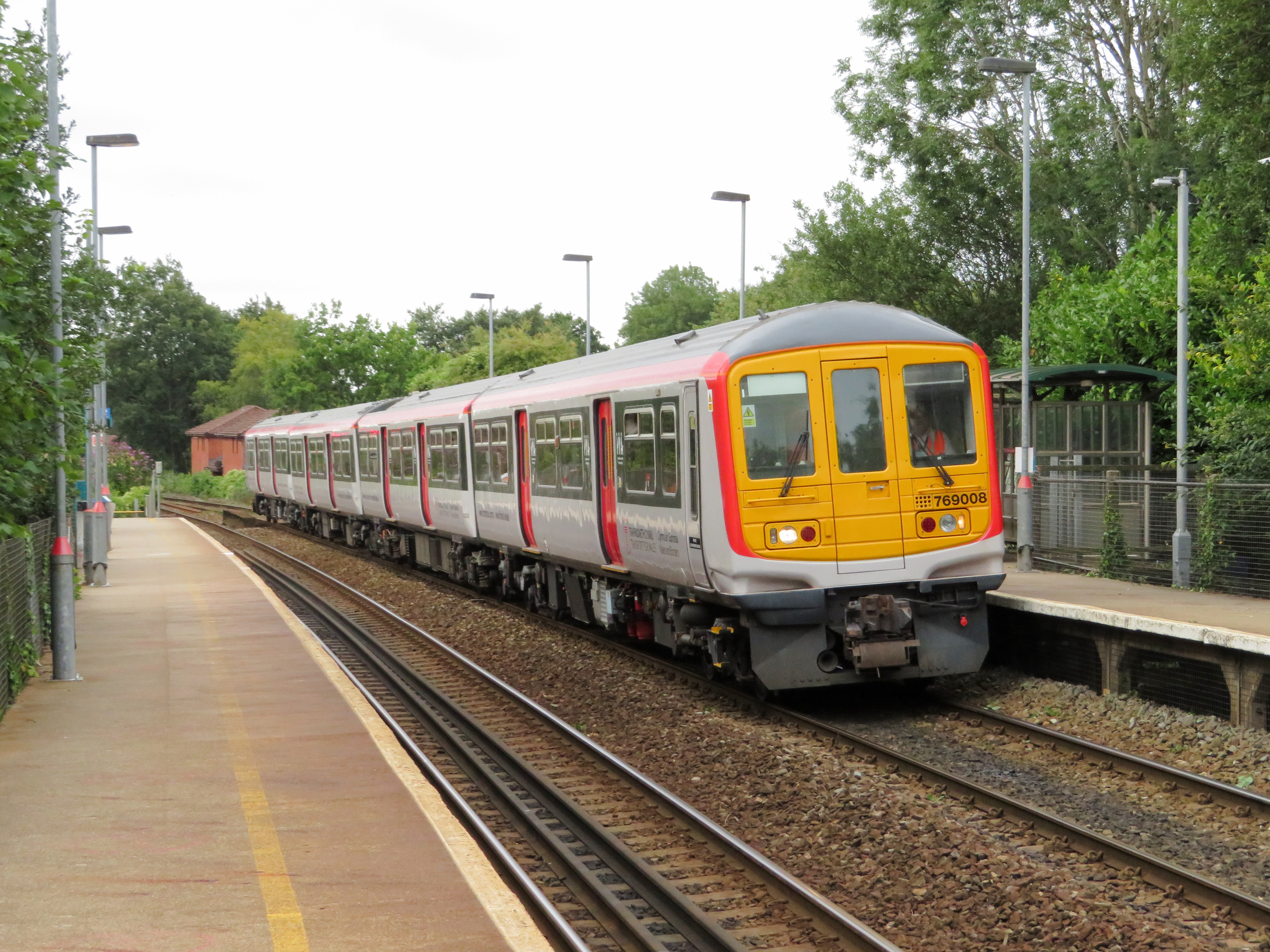 Class 769 at Heath High Level